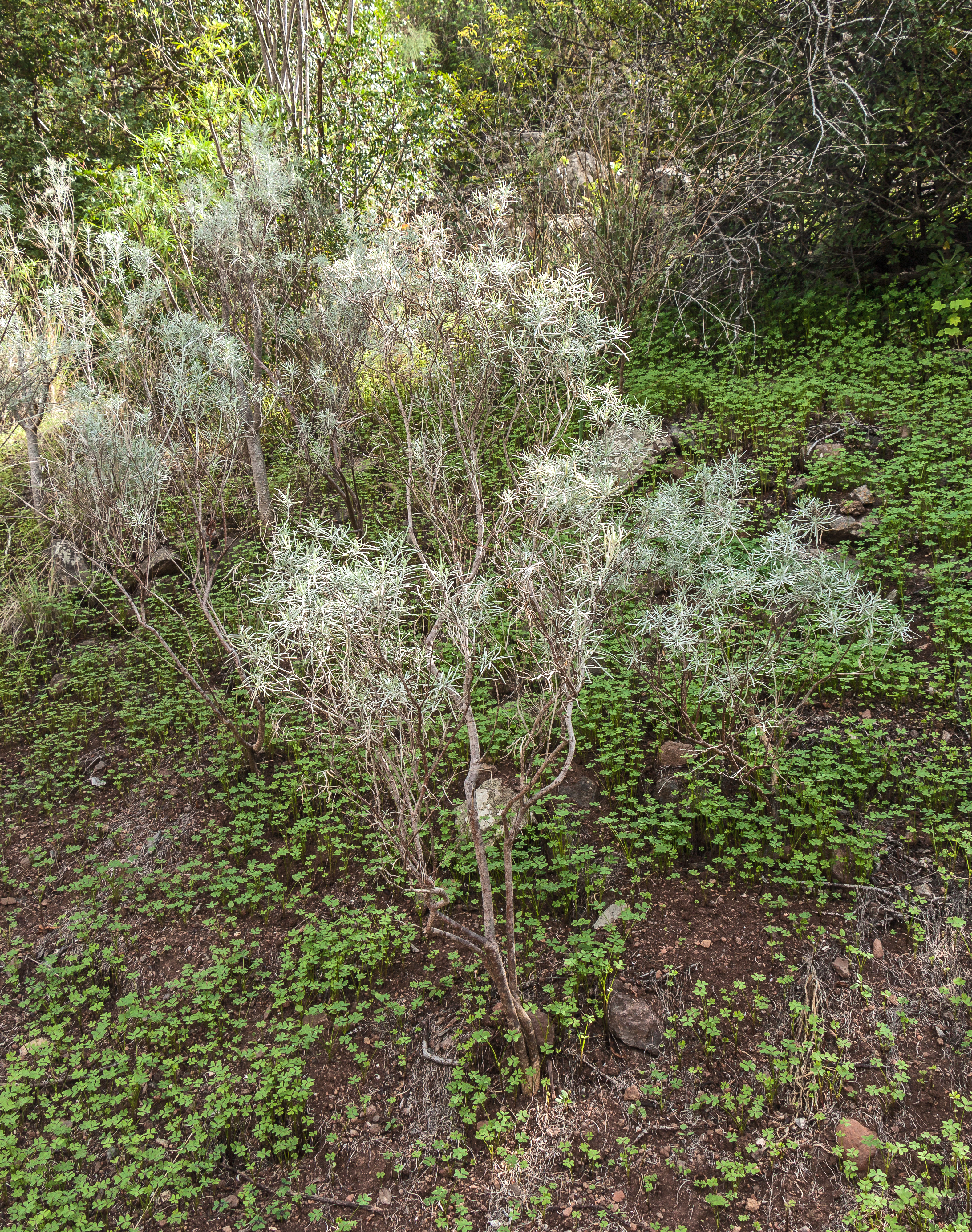 Parolinia platypetala G. Kunkel; Habitus; Jardín Botánico Canario Viera y Clavijo, Gran Canaria, Canary Islands, Spain.